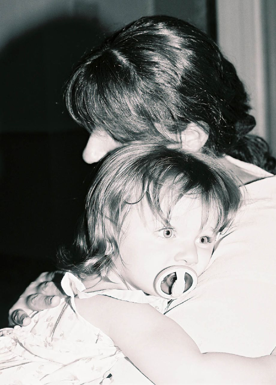 Mother holds Childsafe.